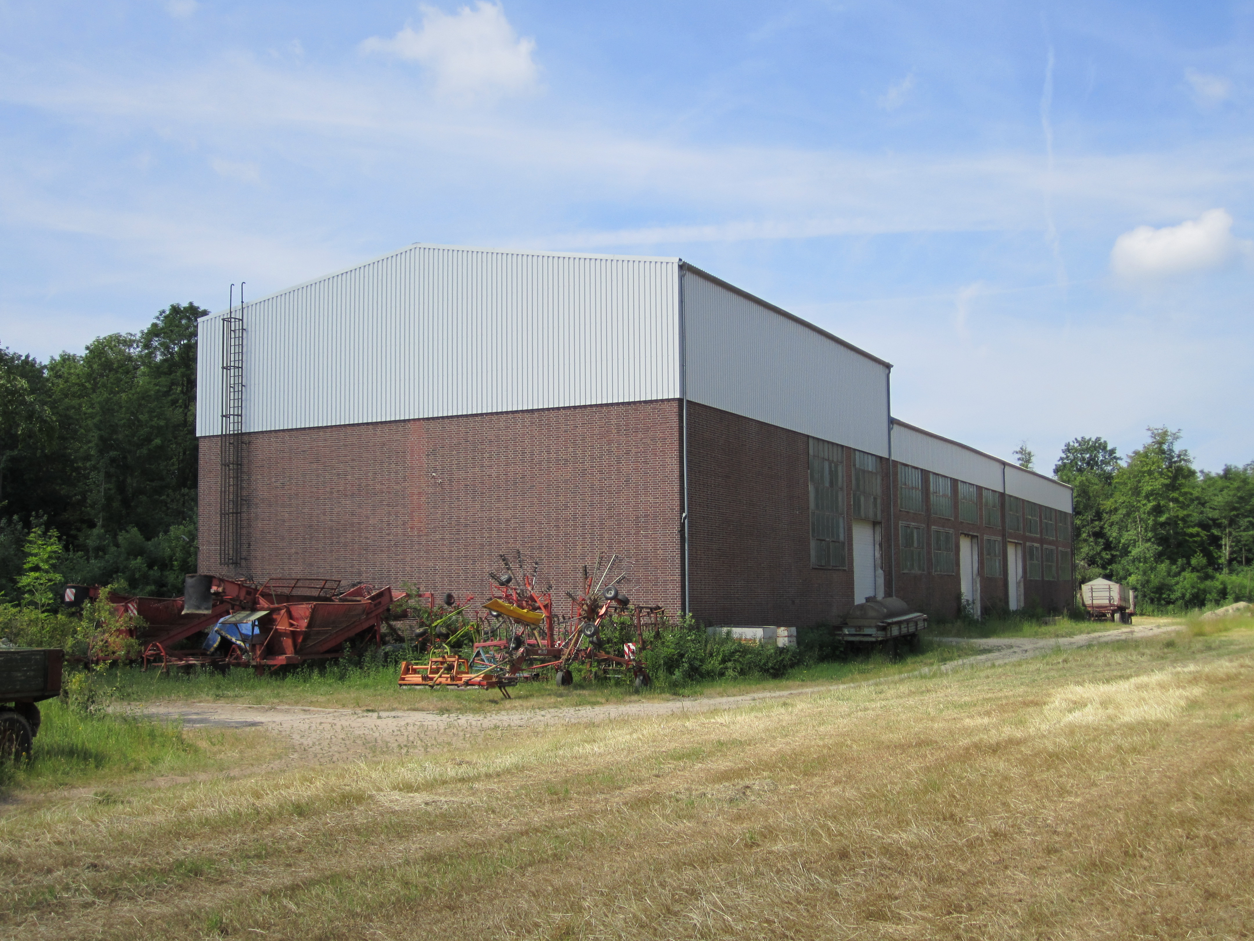 Winding engine house of Ohlendorf shaft, near Salzgitter-Ohlendorf, Lower Saxony, Germany